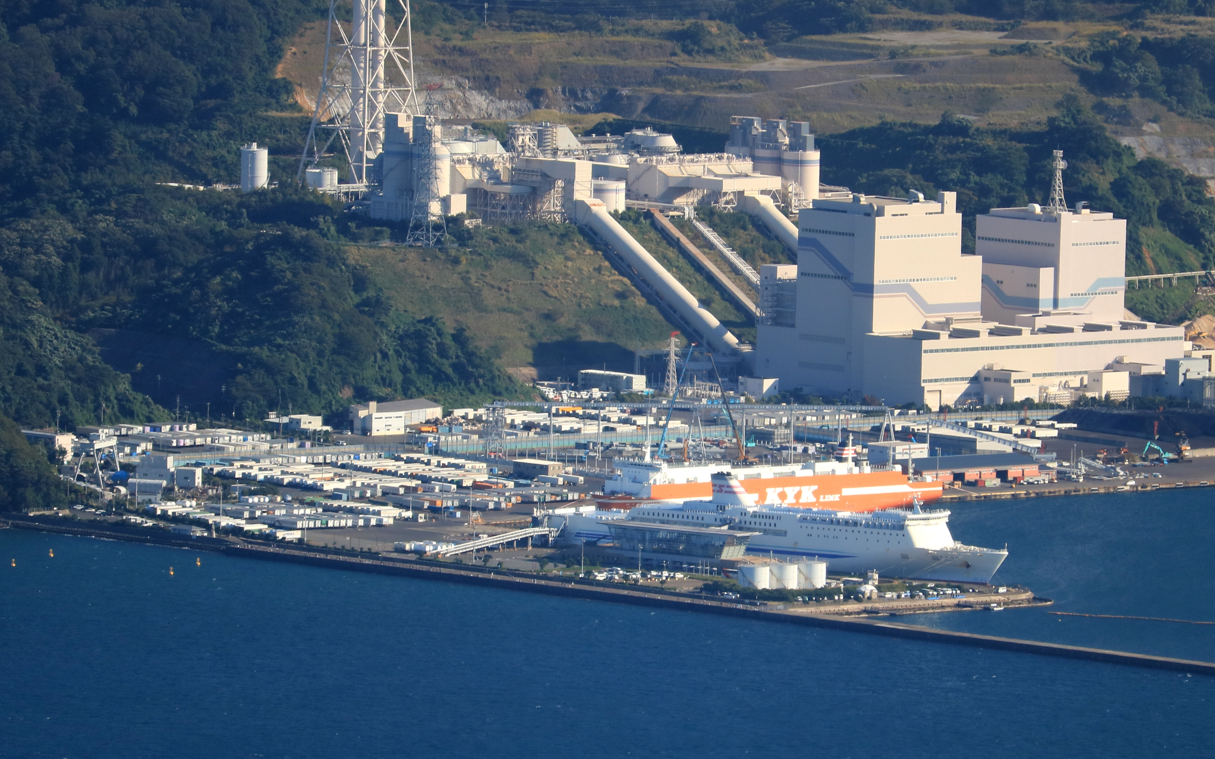 Tsuruga Ferry Terminal with Ferry Suzuran (ship, 2012) and Tsuruga Thermal Power Plant seen from Mount Sazae in Tsuruga, Fukui prefecture, Japan.